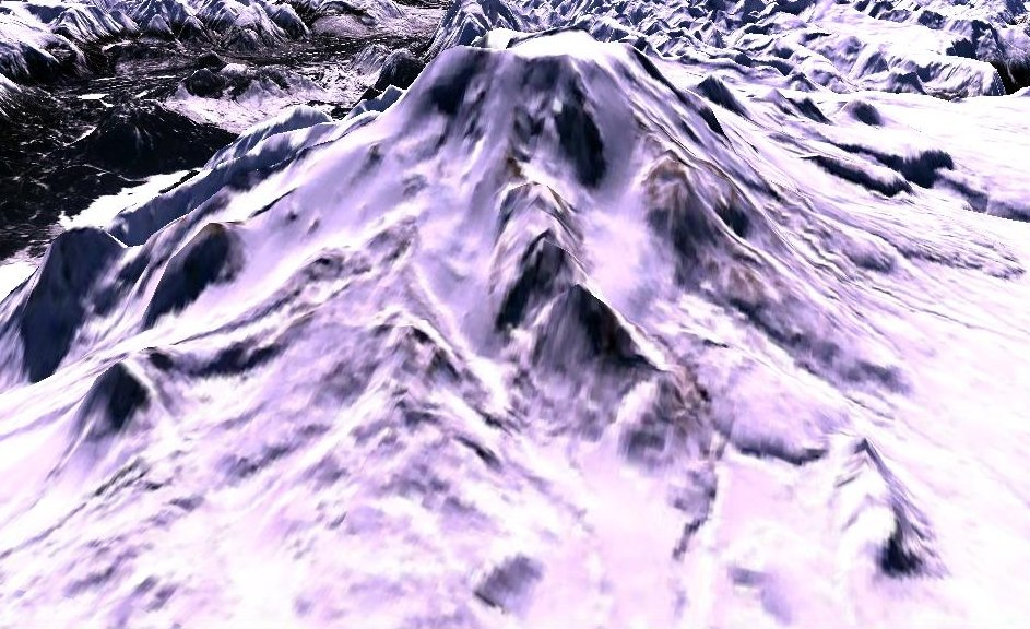 Northwest flank of Mount Edziza